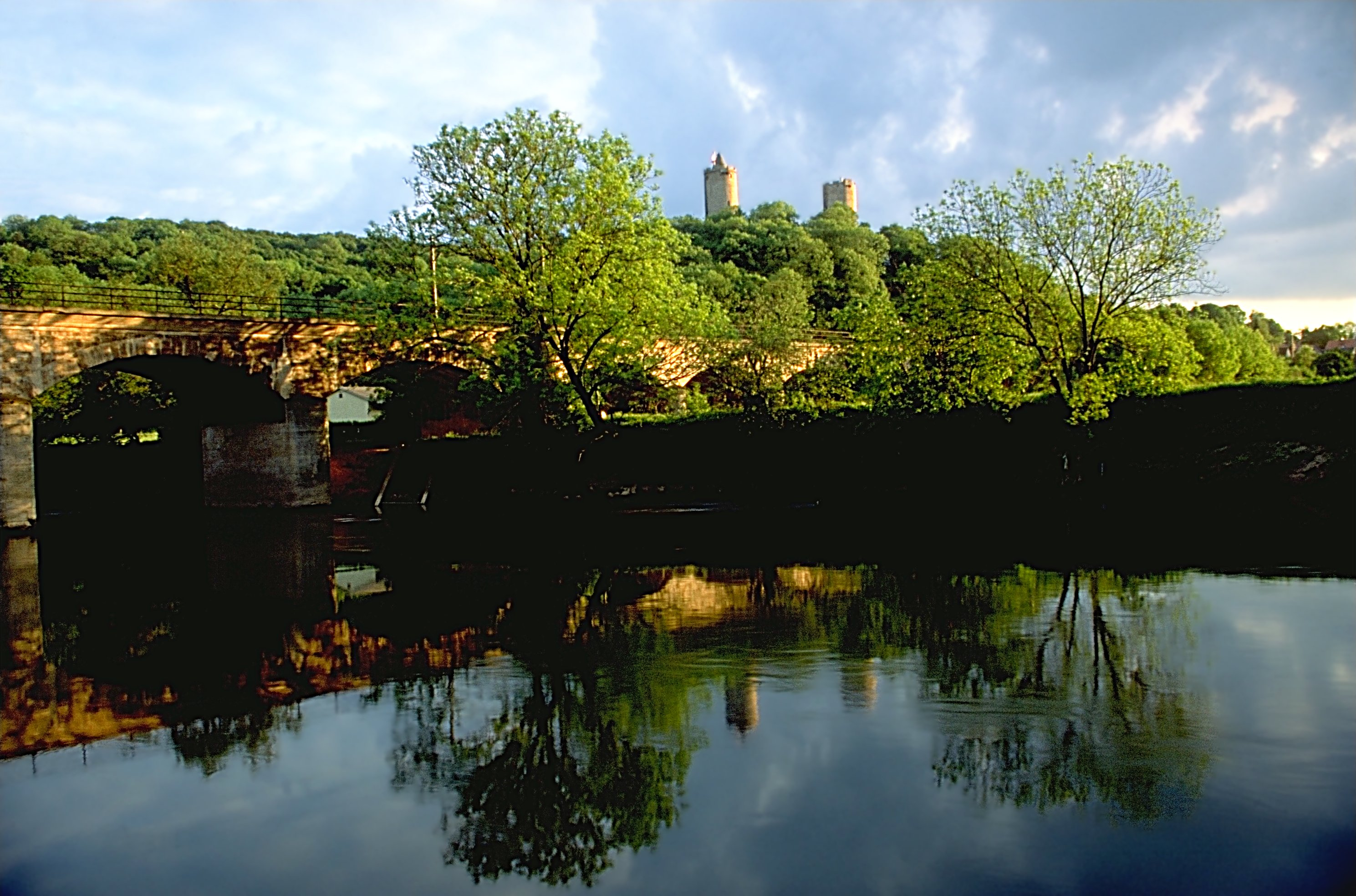 Castle Saaleck near Bad Kösen in evening sun, Germany Photo was taken using the following technique: Film: Fuji Velvia Lens: 28-80 Filter: none Body: Minolta 600si Support: simple tripod Image with Information in English Bild mit Informationen auf Deutsch